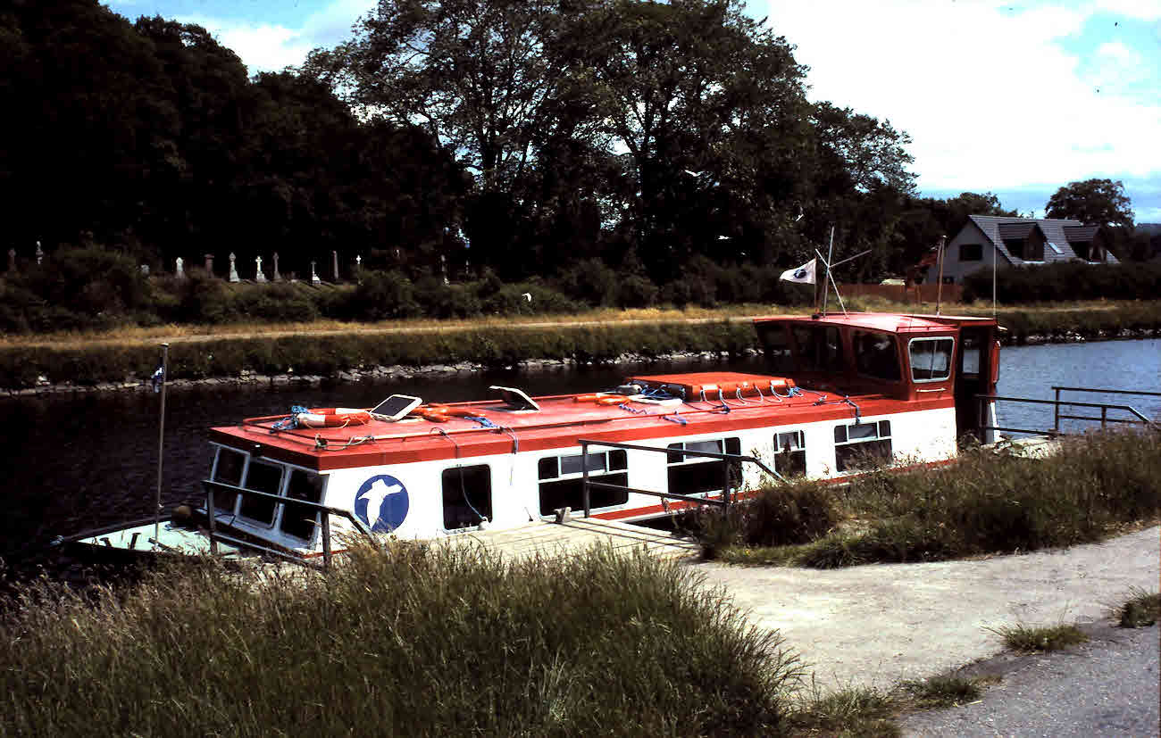 Highland Seagull